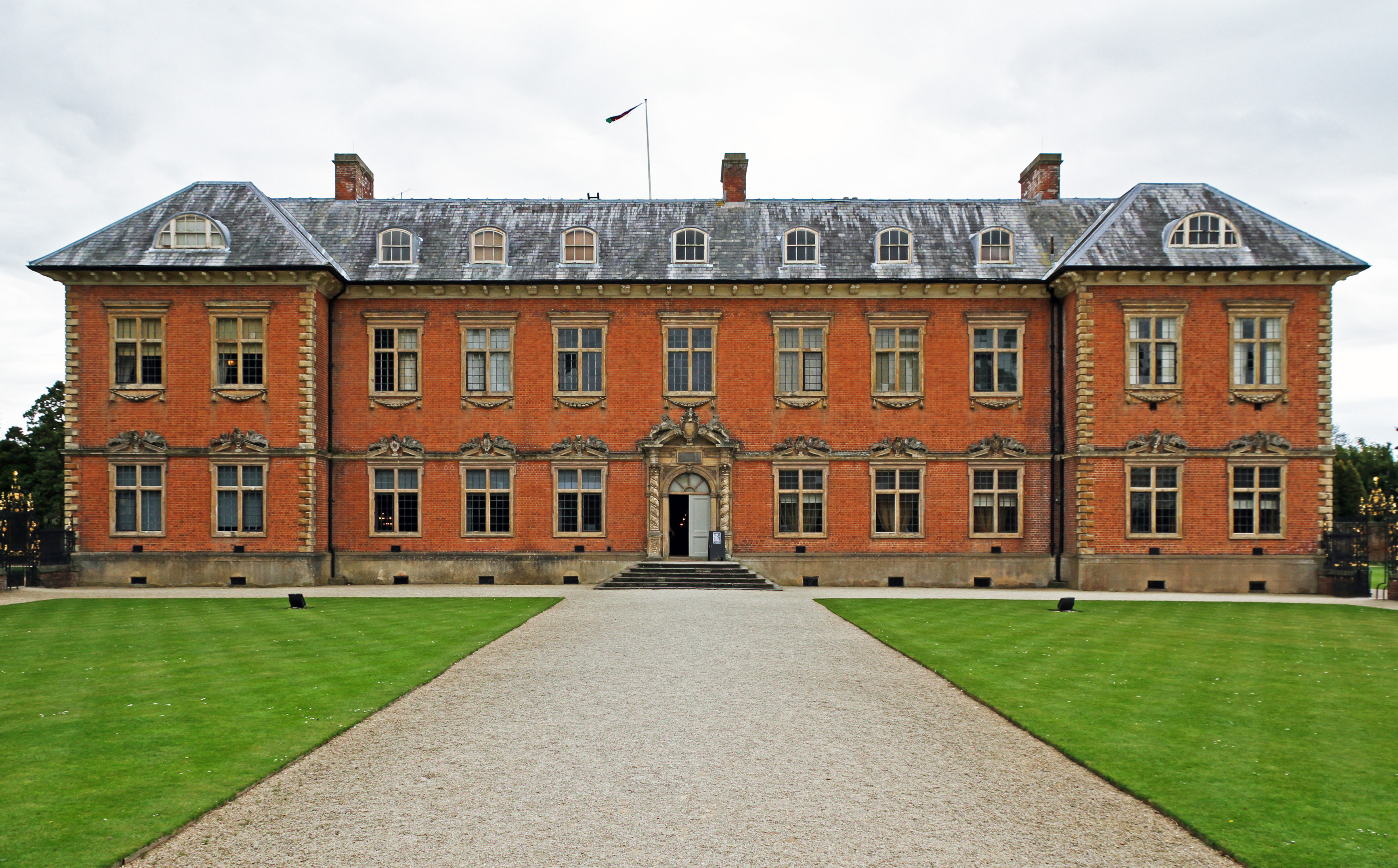 Northwestern façade of Tredegar House, Newport, south Wales